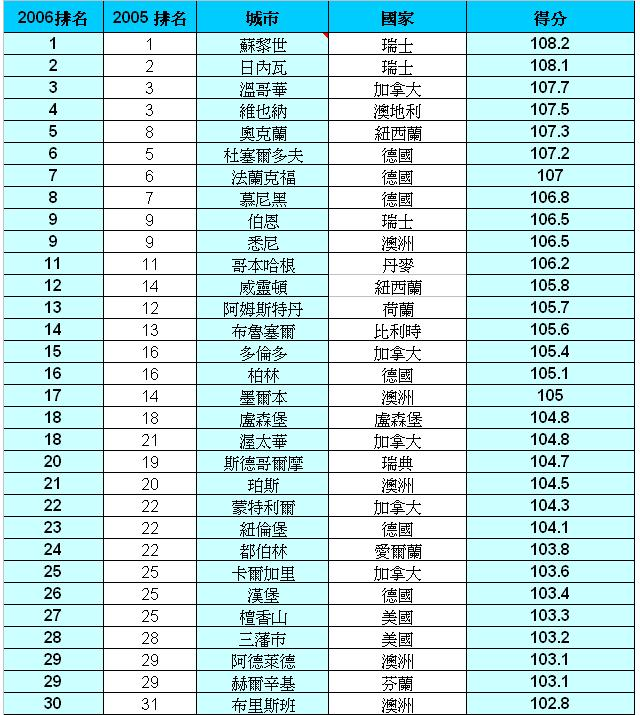 The world's top 30 cities offering the best quality of living.